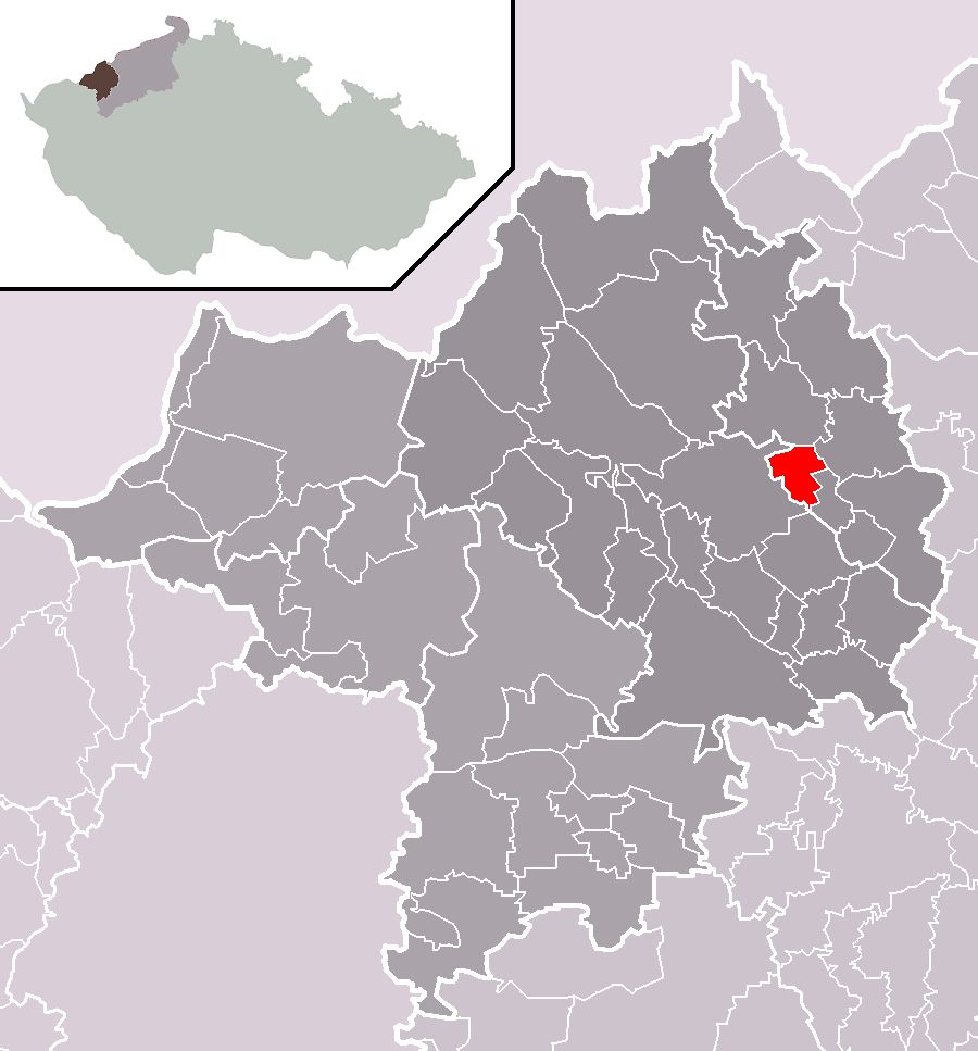 Location of Otvice municipality within Chomutov District and administrative area of Chomutov as a Municipality with Extended Competence.